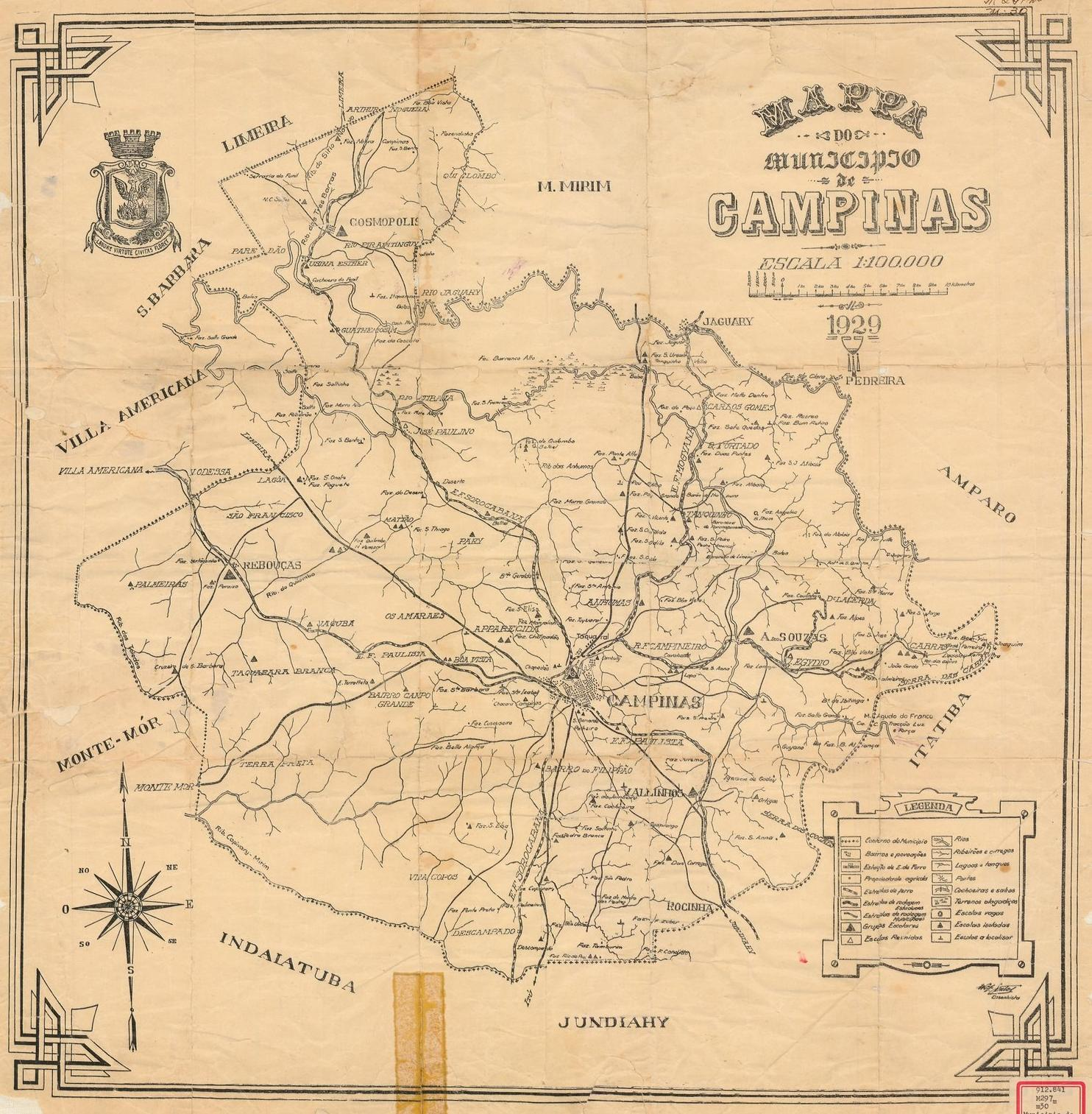 Map of the City of Campinas, 1929. Railway lines the Paulista Railway, Sorocabana Railway and Mogiana Railway. Scale 1:100.000.